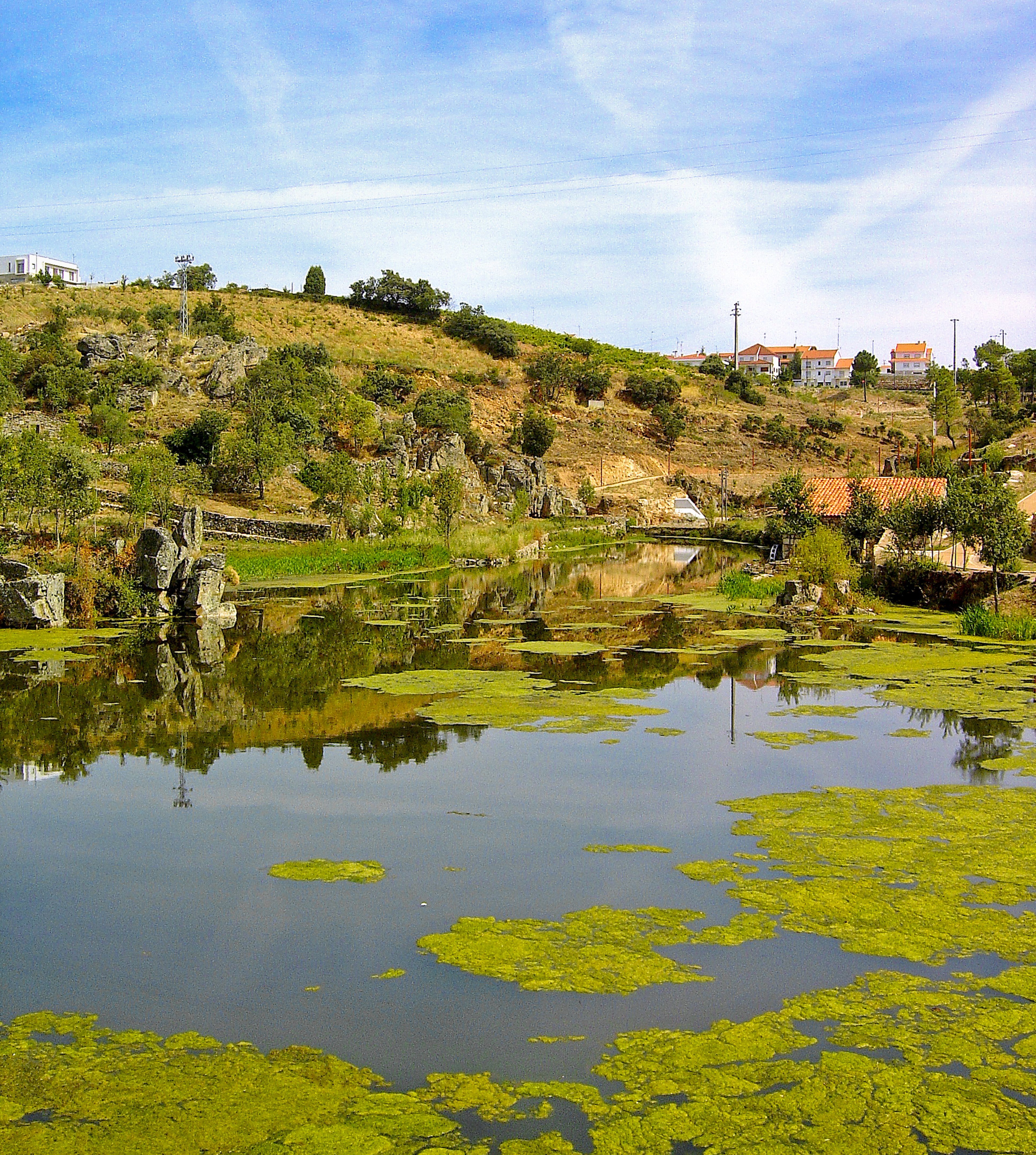 Fresno é o nome do rio que passa em Miranda do Douro. Era um pobre rio com pouca ou nenhuma água, invadido pelo mato selvagem, vazadouro de trapos e cangalhos, uma vergonha ali, ao lado de uma terra linda com 462 anos de cidade e muitos mais de povoação de gente orgulhosa e rija. Por isso mesmo a Câmara, numa visão progressista e dignidade, decidiu alterar a situação e transformar o foco de poluição que era o Fresno, num lugar de lazer e pulmão purificador. Após três anos de trabalhos, com muitas e avultadas despesas, recuperou-se o rio e as margens, arranjaram-se equipamentos, fez-se um Parque Urbano, no qual apetece andar e ficar. Bom para o aspecto da cidade, bom para os residentes, bom para os turistas. Parabéns, Miranda, vocês aí, bem no Nordeste, merecem. Fresno is the name of the river that passes in Miranda of the Douro. It was a poor river with little or no water, invaded for the wild weeds, drain of rags and cangalhos, a shame there, to the side of a pretty land with 462 years of city and many more than population of proud people and rija. Therefore the Chamber, in a progressive vision and dignity, decided to modify the situation and to transform the focus of pollution that was the Fresno, into a place of leisure and purificador lung. After three years of works, with many and avultadas expenditures, the river recovered and the edges, had arranged equipment, became an Urban Park, in which apetece to walk and to be. Good for the aspect of the city, good for the residents, good for the tourists. Congratulations, Miranda, vocês there, well north-eastern, deserve. See where this picture was taken. [?]